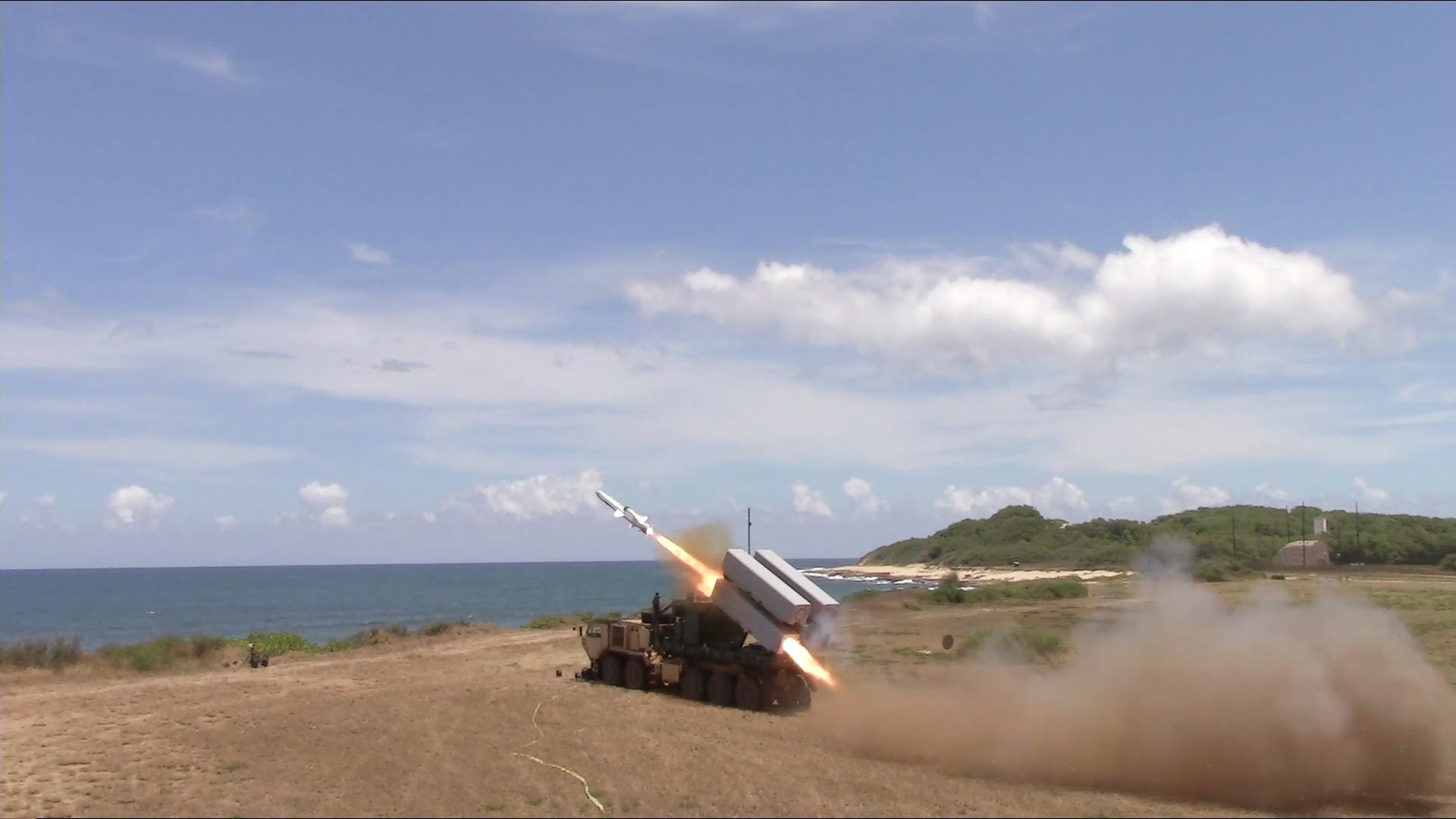 The U.S. Army Research, Development and Engineering Command Aviation & Missile Center facilitated the first land-based launch at the world's largest international maritime exercise July 12.